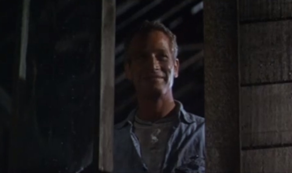 Luke defies the authorities for the last time, after he is delivered by Dragline.